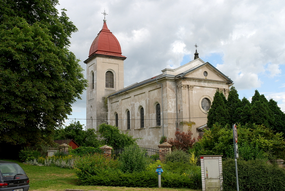 Church of St. Martin, (Nížebohy), Nížebohy, SW view